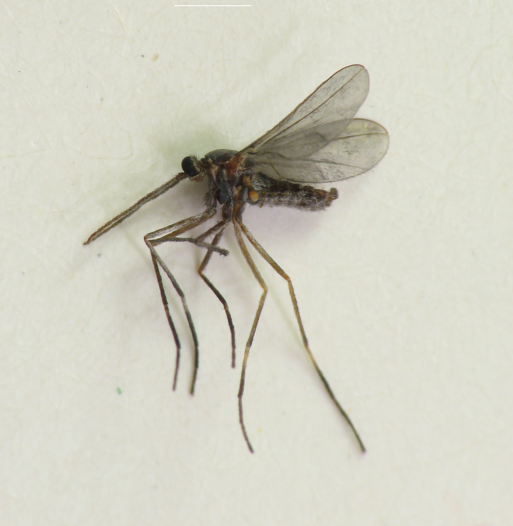 Gall maker of goldenrod (Solidago sp.), Asphondylia solidaginis, adult. Pennypack Restoration Trust, Montgomery County, Pennsylvania, USA.